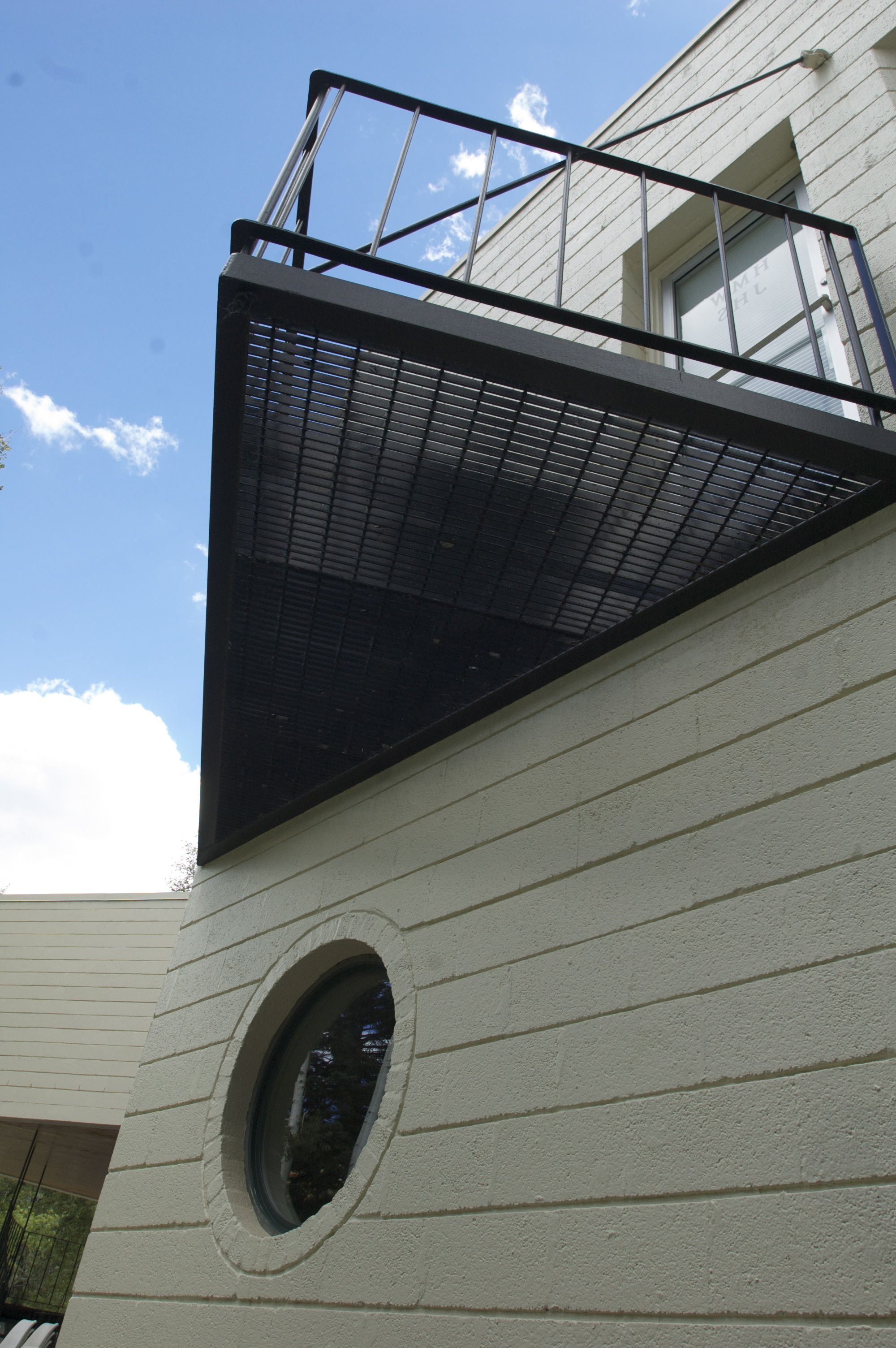 North facing wall of the Given Institute in Aspen Colorado.